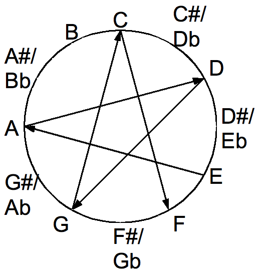 All fourths tuning drawn in the chromatic circle.